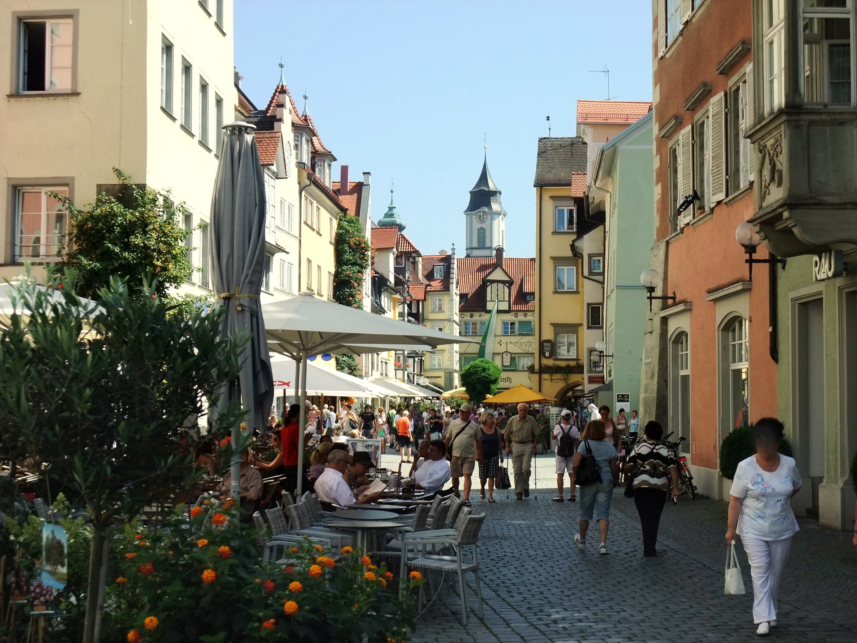 The town of Lindau is located on the northeastern shore of Lake Constance in Bavaria, Germany. View to Maximilianstraße in the historic centre.